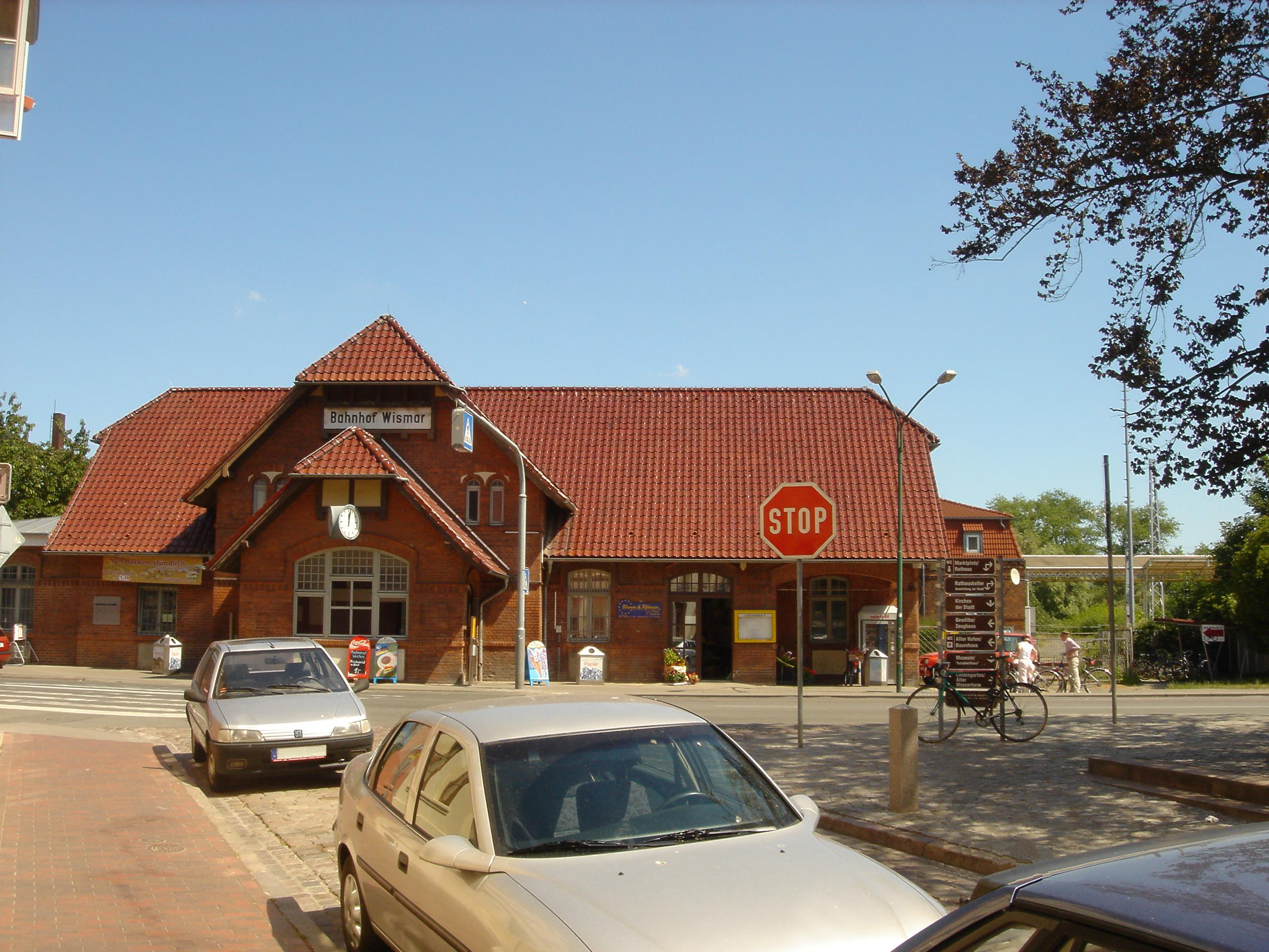 The train station in Wismar, Mecklenburg-Vorpommern, Germany.